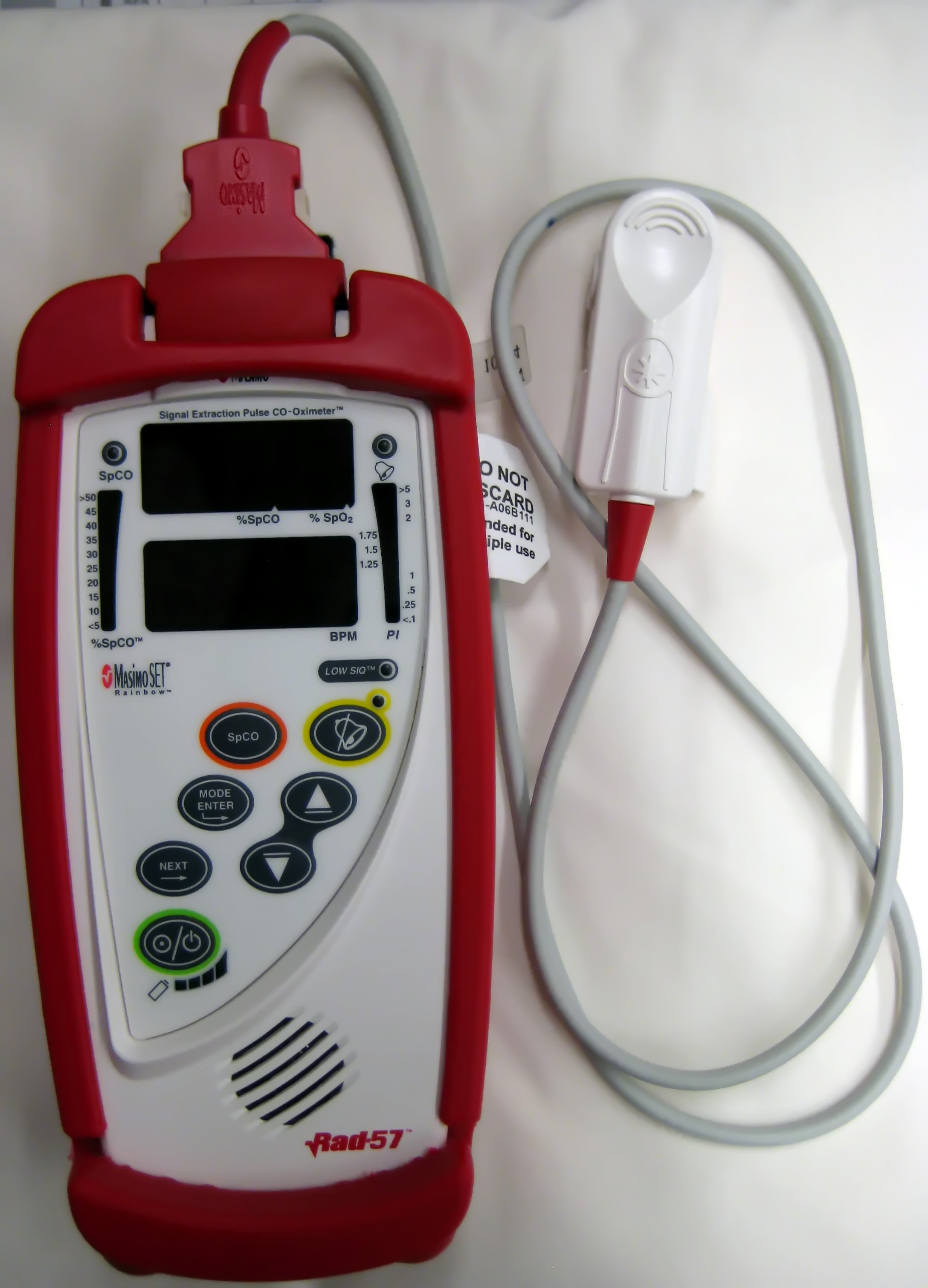 Finger tip carboxyhemoglobin saturation monitor with pulse oximetry. A CO-oximeter manufactured by Masimo.